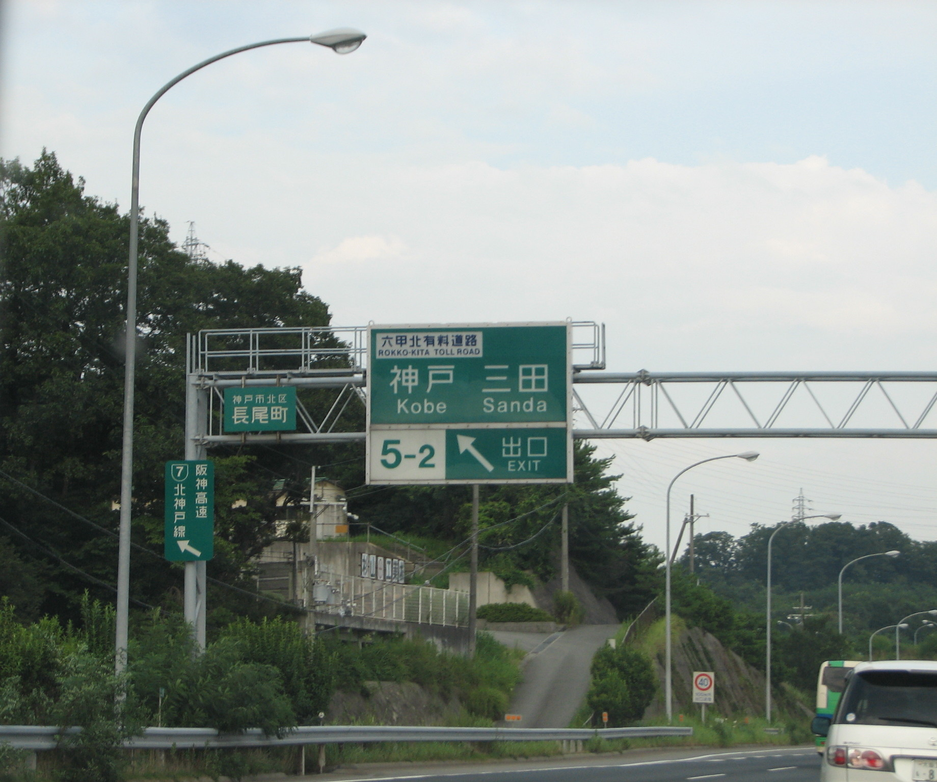 Kobe-Sanda IC